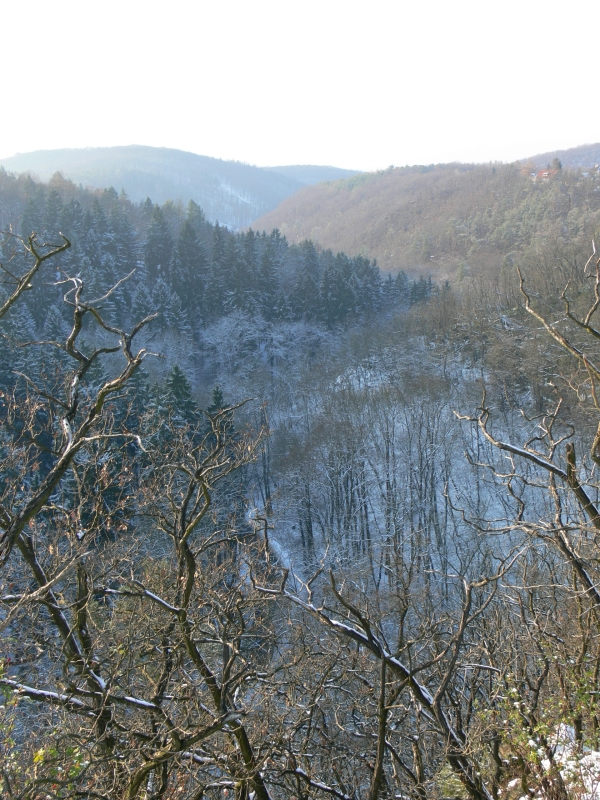 Brezany Valley, CZ